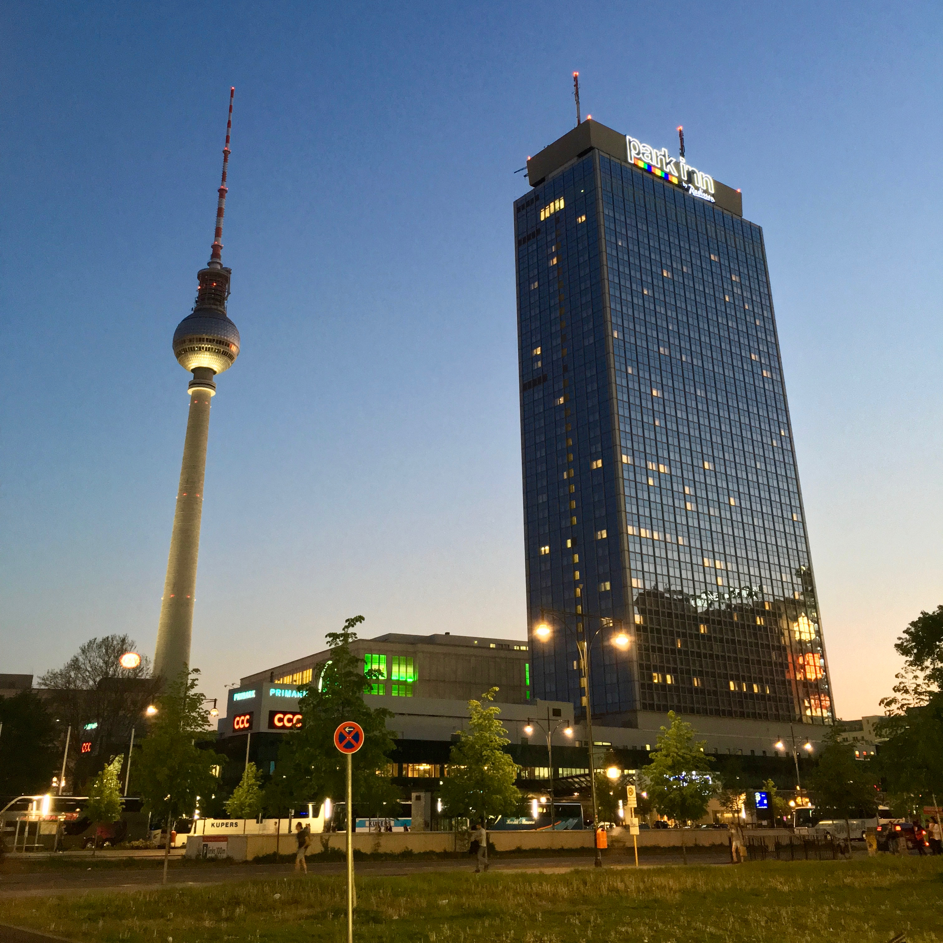 Berlin TV Tower and Park Inn as seen at dusk.